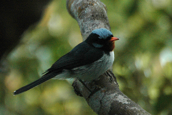 Male Blue-crested Flycatcher (Myiagra azureocapilla)